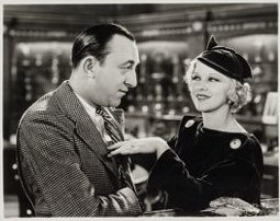 Vintage photo featuring Allen Jenkins and Glenda Farrell in a scene form the film The Keyhole (1933).